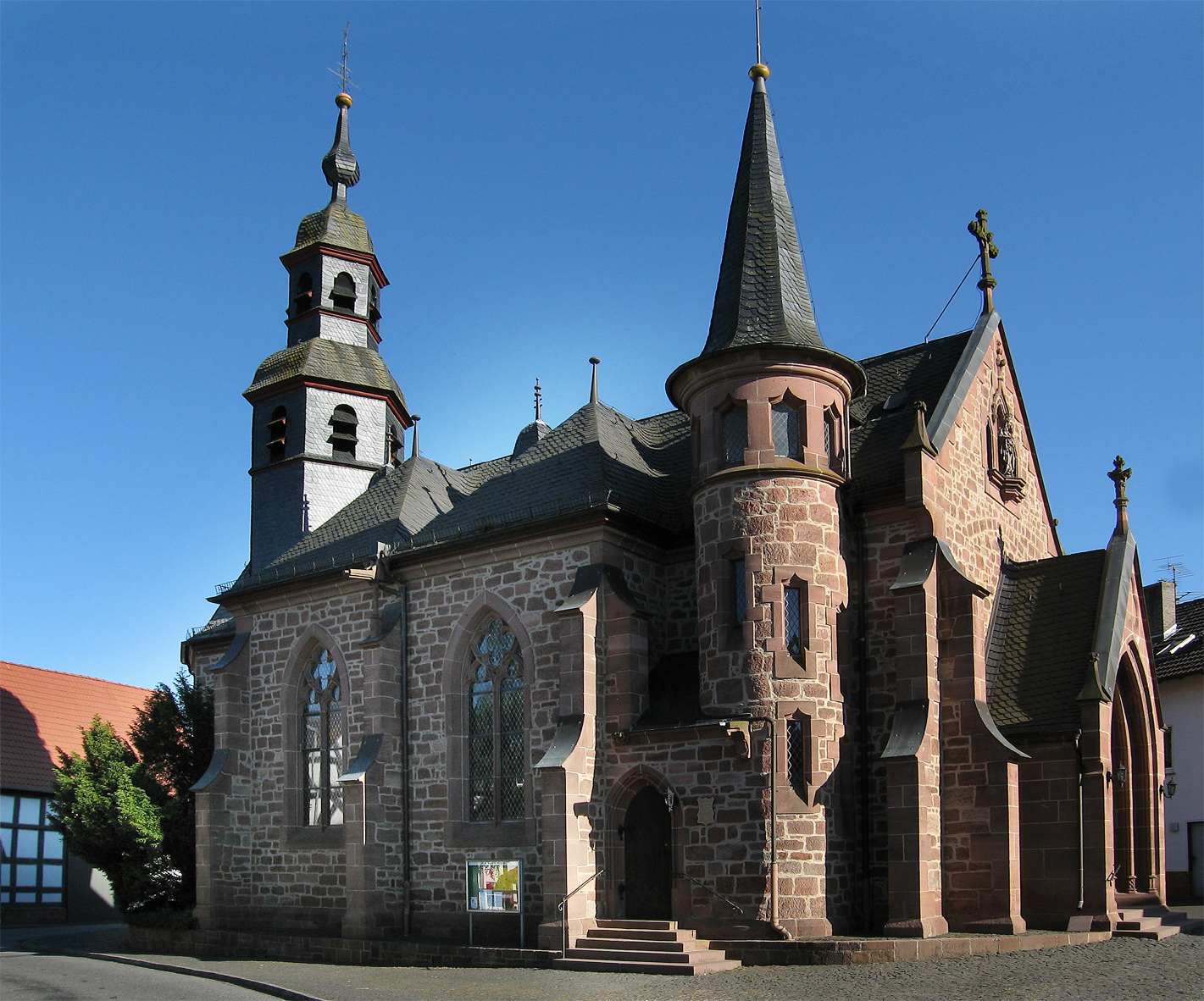 Church of Ginseldorf 1450